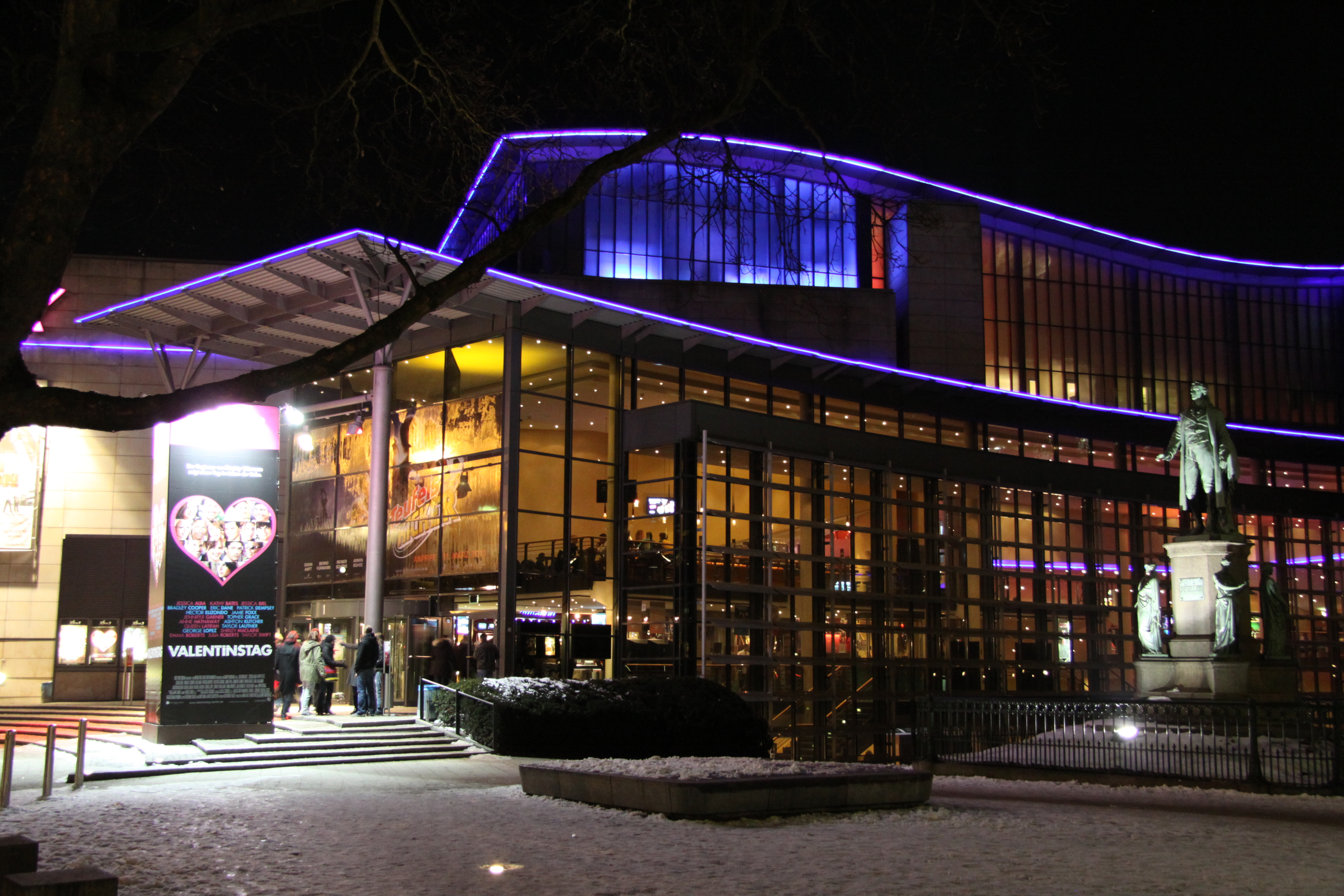 Cinemaxx multiplex at Hamburg-Dammtor.